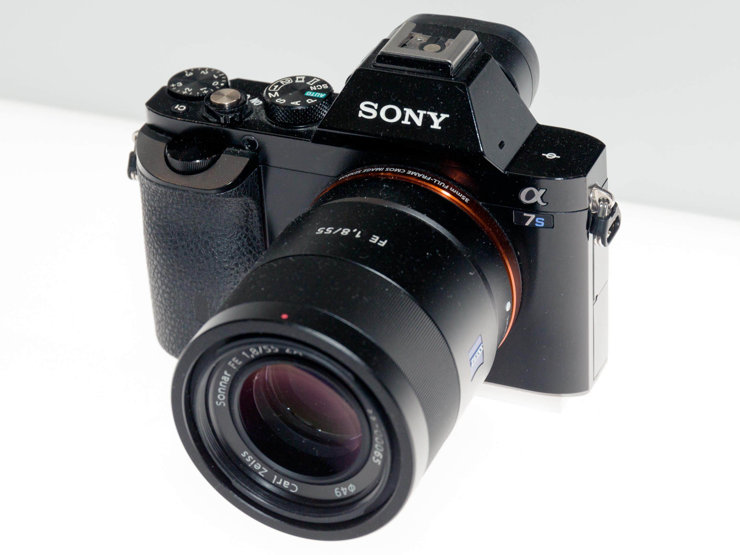 CP+ 2017: 2014 Sony Alpha 7S (ILCE-7S)